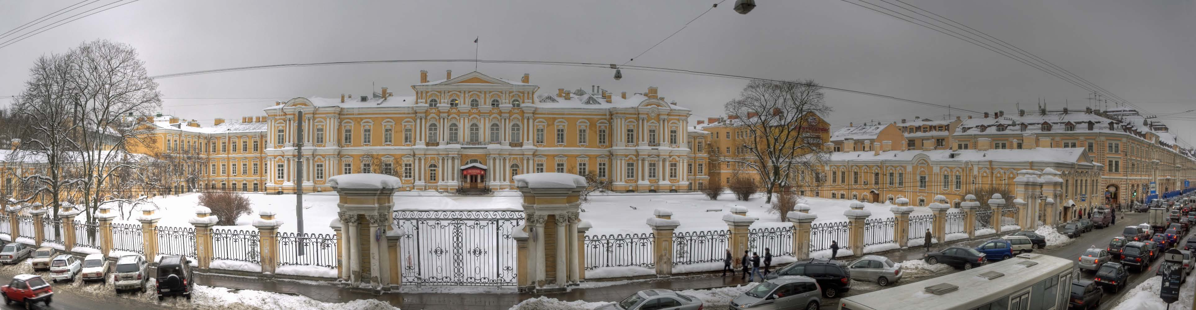 Vorontsovsky Palace in Saint Petersburg